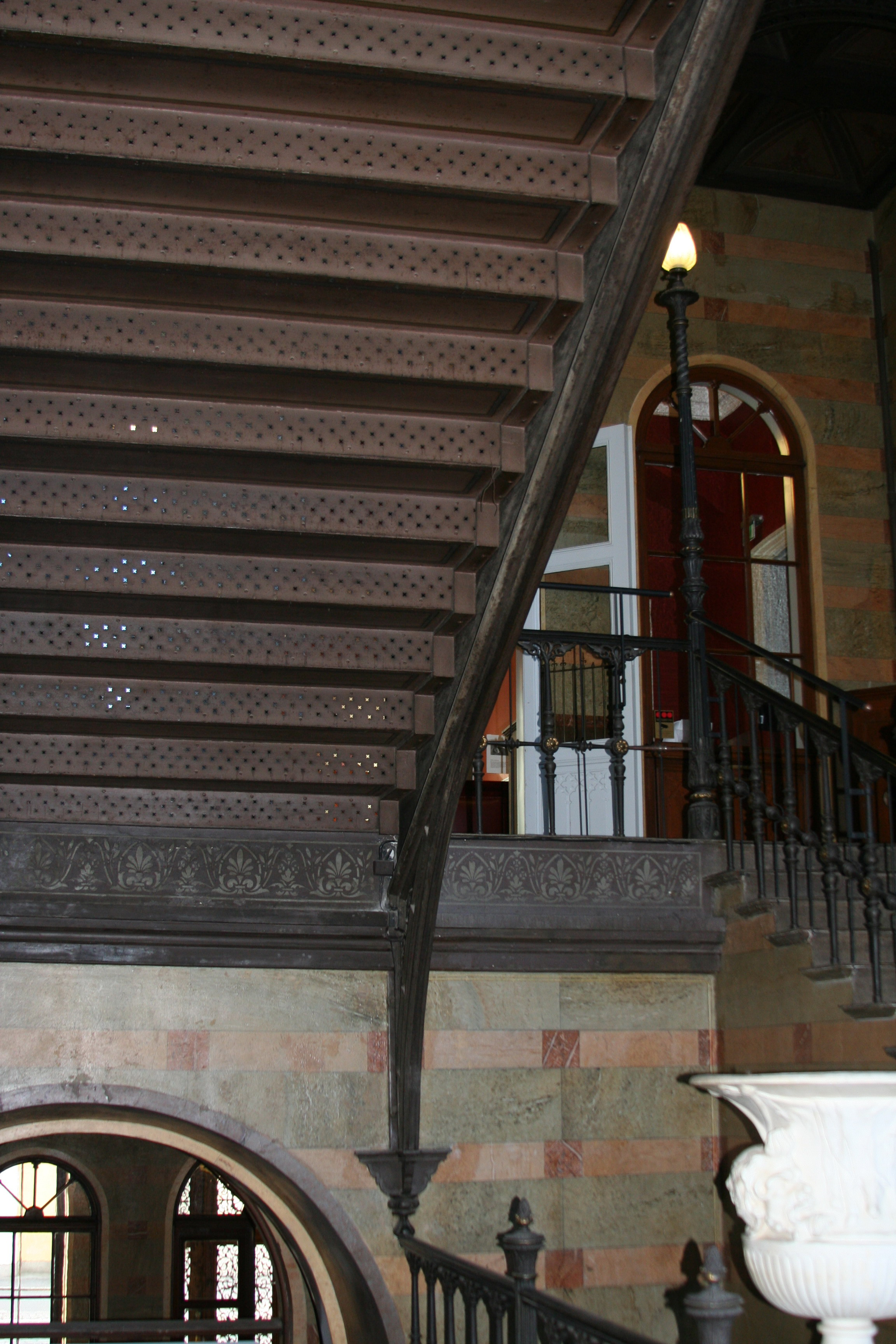 Helsinki University Museum, Arppeanum building, Helsinki, Finland. Main staircase. The staircase is made of cast iron and steel plate. The vertical steel plates of the steps are decorated with star-shape holes. Lamps are original. Architect Carl Albert Edelfelt, completed in 1869.